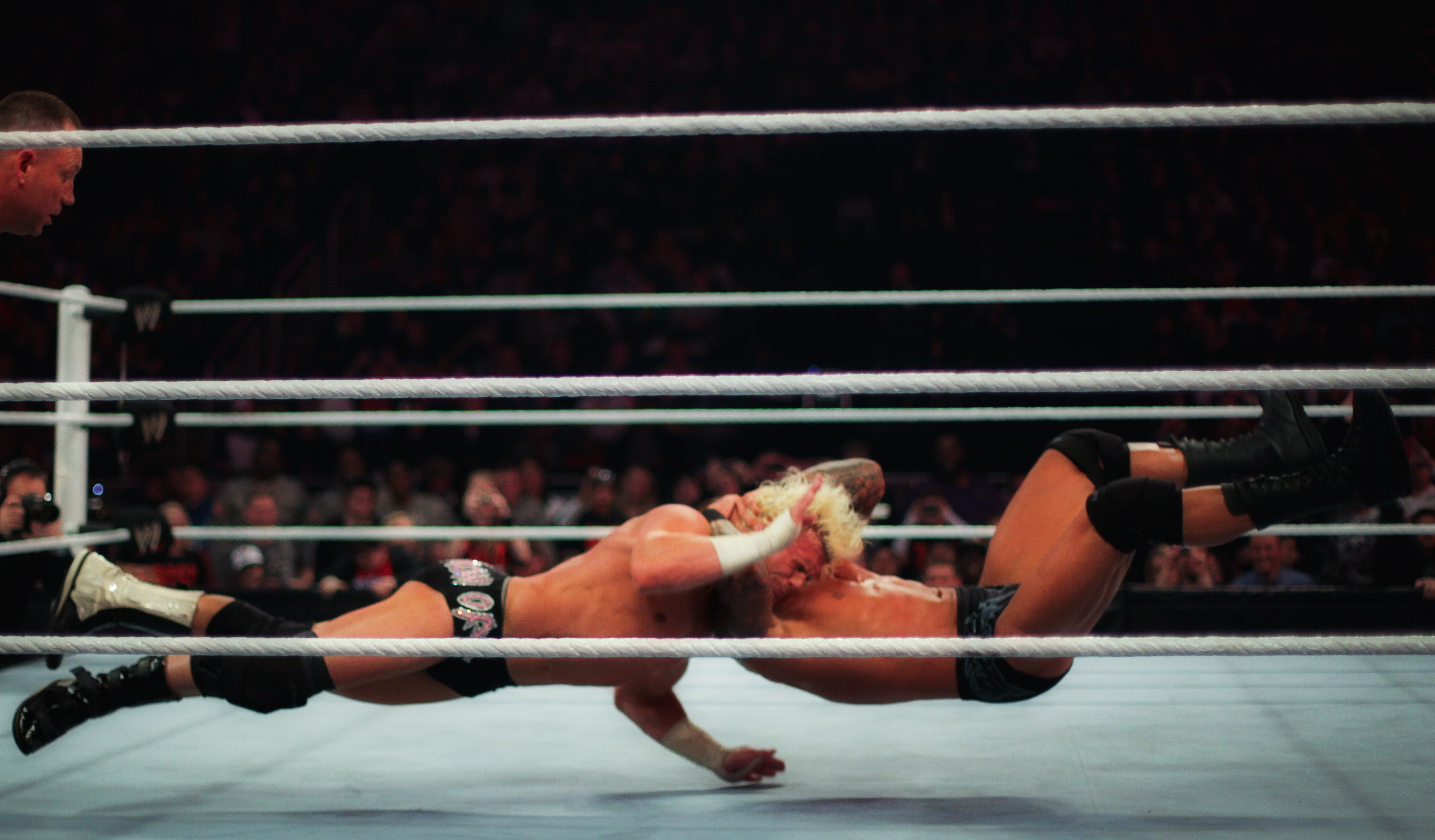 Randy Orton delivers his finishing move, the jumping cutter known as the RKO, on Dolph Ziggler on the January 30, 2012 episode of WWE Raw